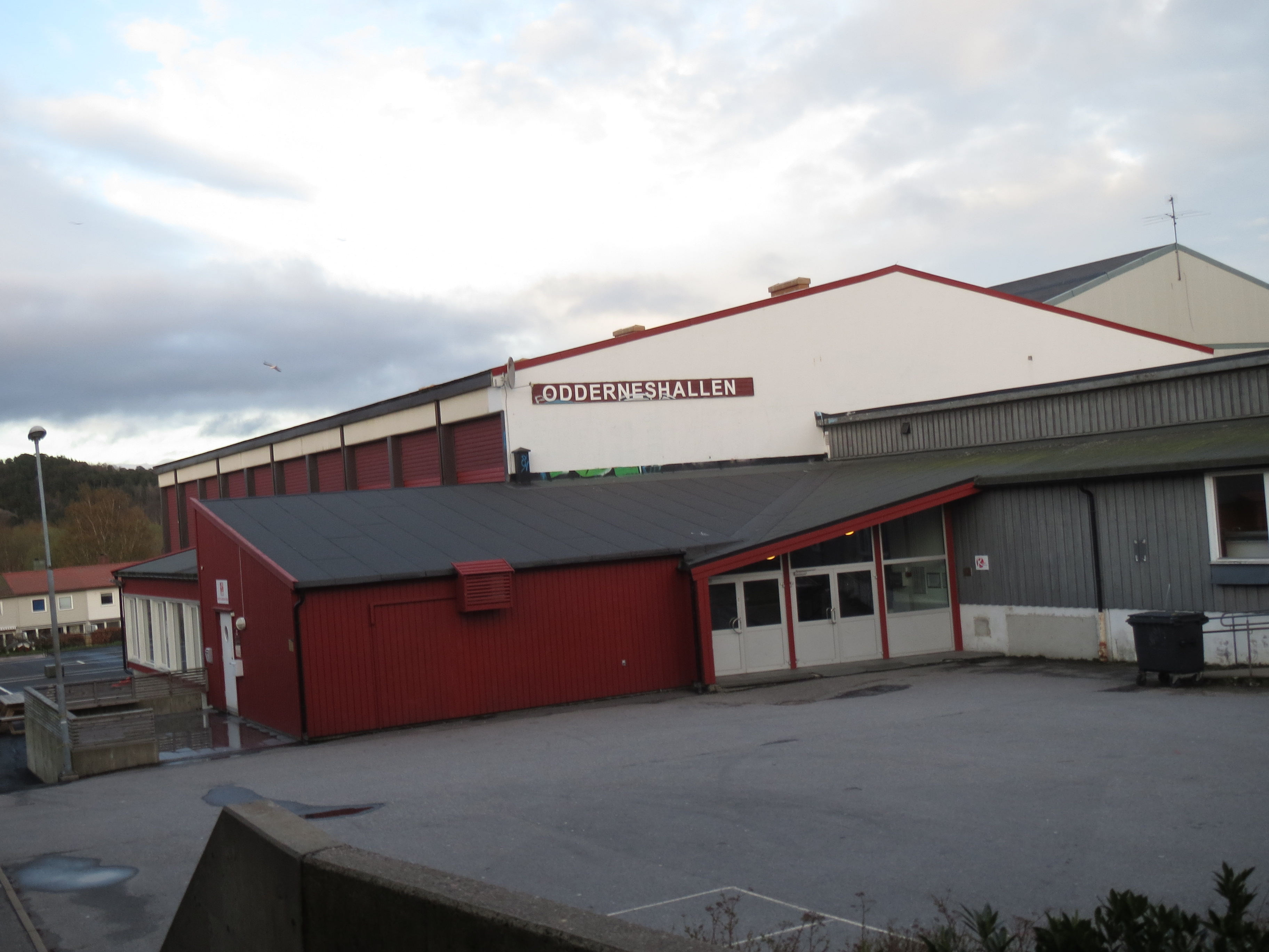 Clubhouse AK28, Odderneshallen, the badminton center in Kristiansand, NorwayNorsk bokmål: Fra venstre:AK28 (klubbhus), Odderneshallen og badmintonsenteret i Kristiansand